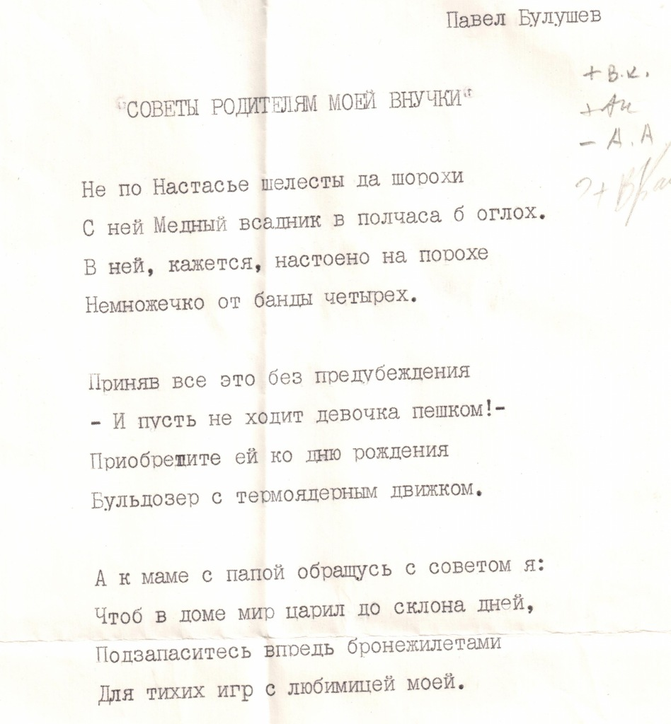 Bulushev PM